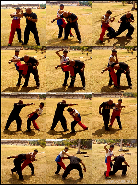 Manong Peter "Tisoy" Siscon, Jr. demonstrating Filipino street boxing techniques or "suntukang kalye" with Guro Mau Leongson at Rizal Park, 2015